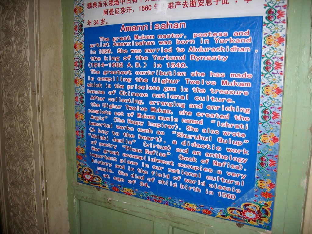 Yarkand (Sache) is an oasis city in the Xinjiang Uygur Autonomous Region of the People's Republic of China. Mausoleum of Aman Isa Khan.